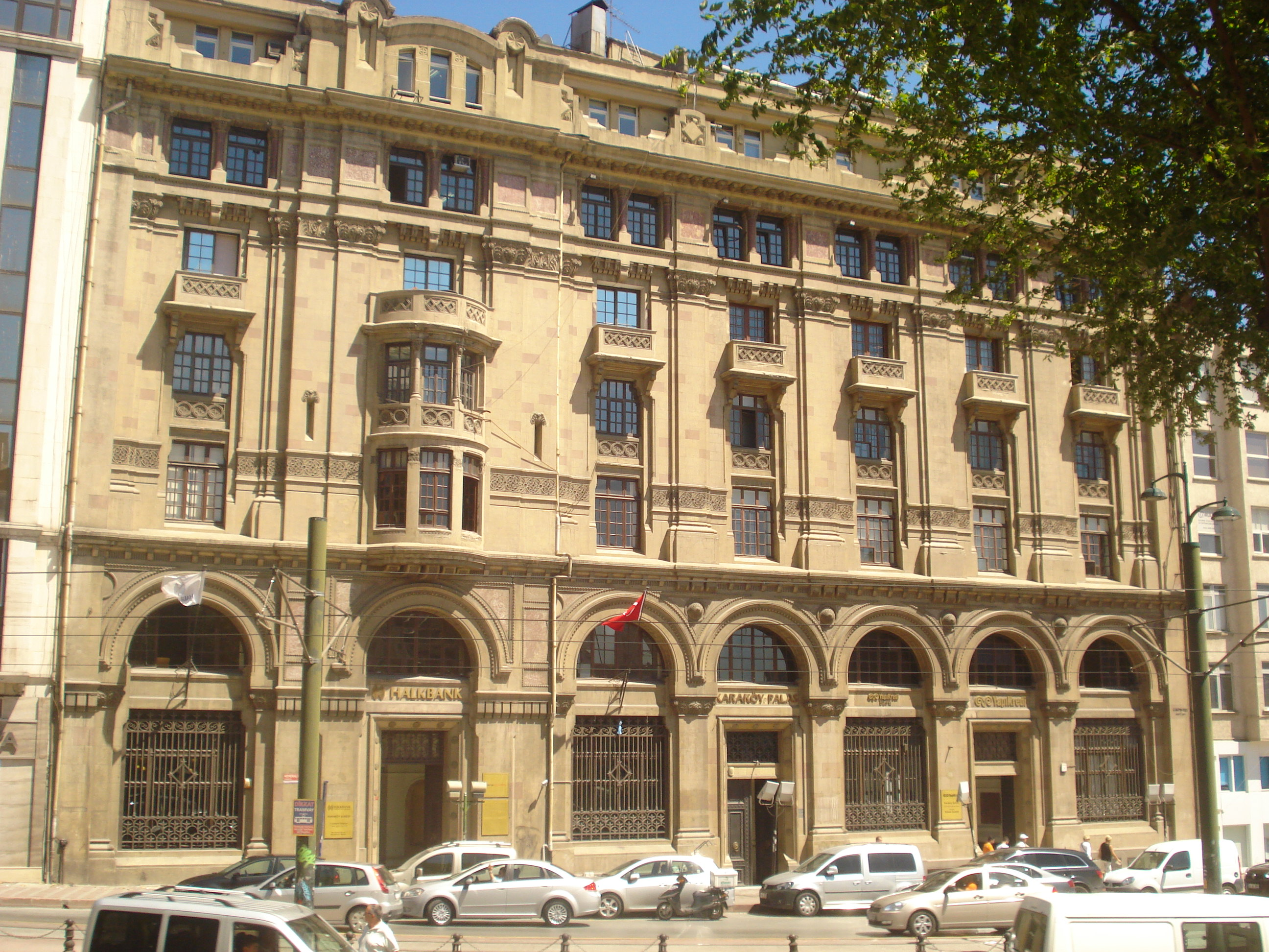 Karaköy Palace in Karaköy, Beyoğlu was designed by architect Giulio Mongeri. It is currently been used by Halkbank.